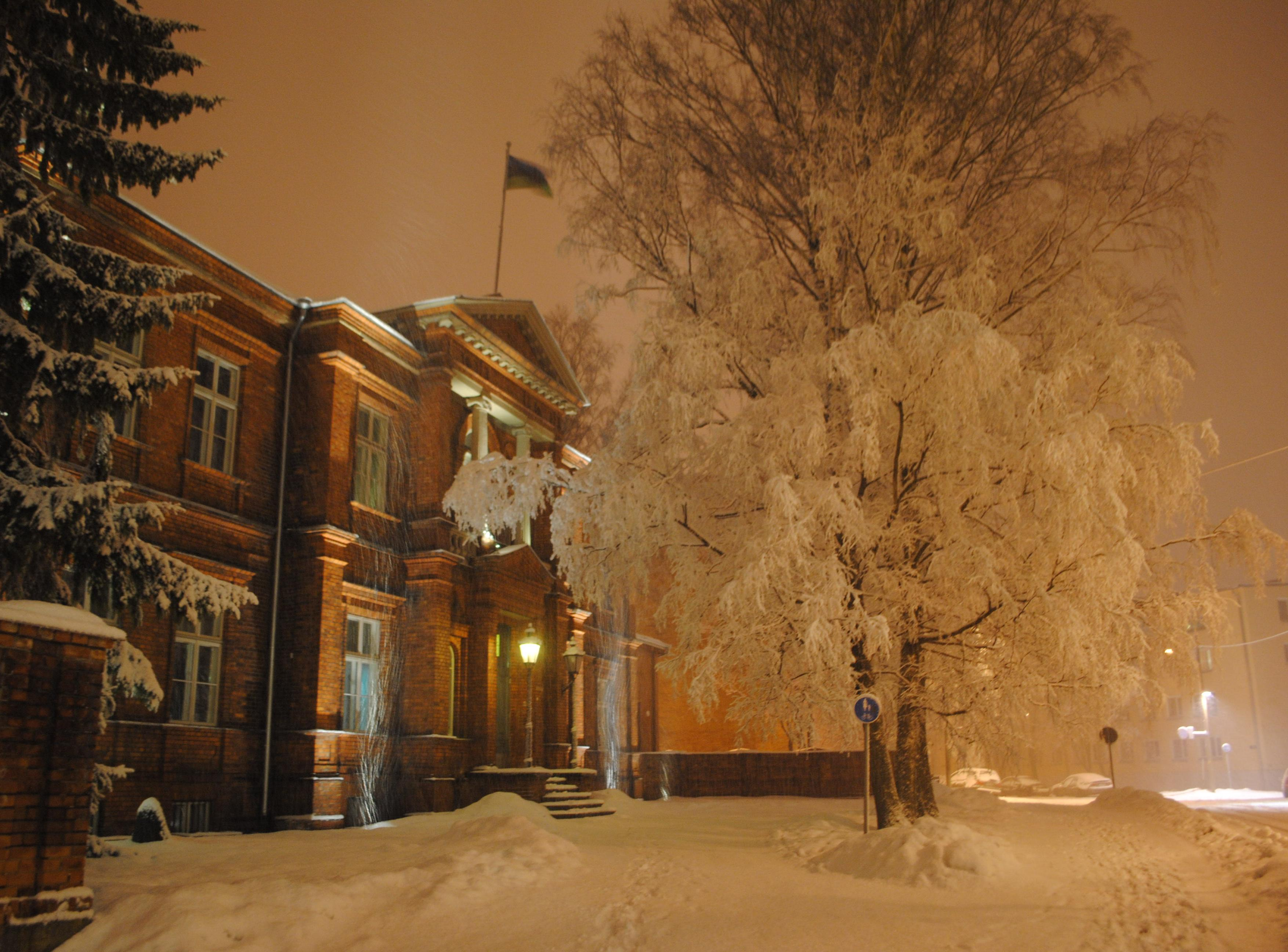 The convent house of Estonian Student Corporation "Rotalia"